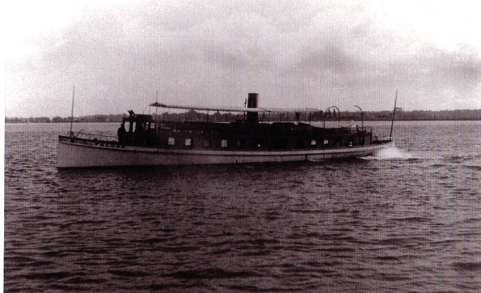 The Falcon, Yacht of Falconwood Company, was built in 1860